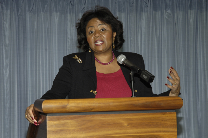 Linda Cropp speaks to a Department of Commerce Bureau of Economic Analysis gathering as part of the department's African American History Month program - Feb 1, 2006.